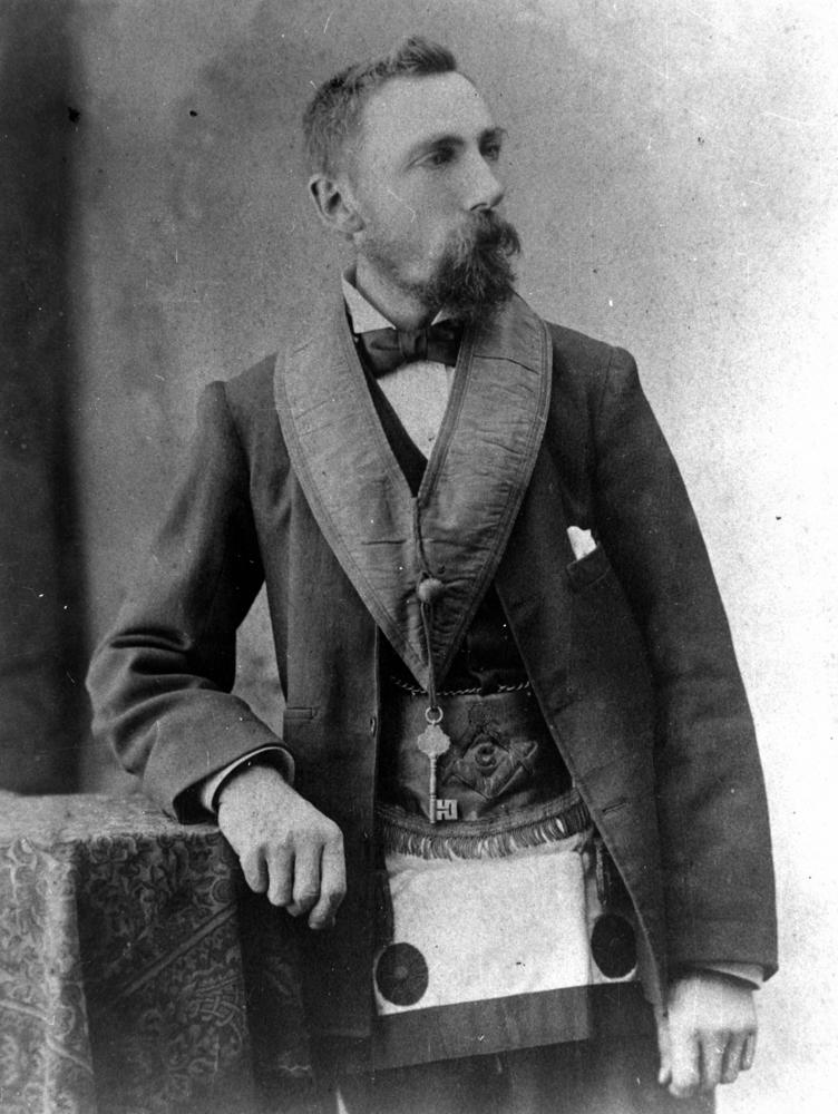 Jens Hansen Lundager wearing his official Freemason's outfit, Mt. Morgan, ca. 1884. Jens Hansen Lundager (born Jens Larsen Hansen), was born 4 May 1853 in Denmark. His parents were Hans Jensen and Else AndersDatte and he grew up in the city of Bogense. He last lived in the city of Fredericia where he had a photographic business under the name Jens Larsen Hansen (Lundager was the village his mother Elser Andersdatter Jensen family came from, he took that name after he arrived in Australia). He came to Australia to combat symptoms of TB, and arrived on board the Charles Dickens, from Hamburg to Rockhampton on 26 February 1879. He took over the studio of of French photographer Louis Buderus. He married fellow Dane Mathilde Helene Biltoft in Rockhampton on 12 April 1882 and together they raised a large family. He was naturalised in Rockhampton in 1883, and around 1884 he began travelling regularly from Rockhampton to Mt. Morgan to make portrait studies of the miners and their families. When his Rockhampton studio was burnt out around 1892, Lundager settled permanently with his family in Mt. Morgan. From 1892 until 1920 he was an important member of that community. He became a bookseller, journalist, Mayor, Trustee of the Technical College, Treasurer of the School of Arts and proprietor of the Argus newspaper. He also became a Freemason in 1884. He died 7 March 1930 in his home in Chatswood, Sydney NSW, and was buried at the Methodist Cemetery North Sydney.